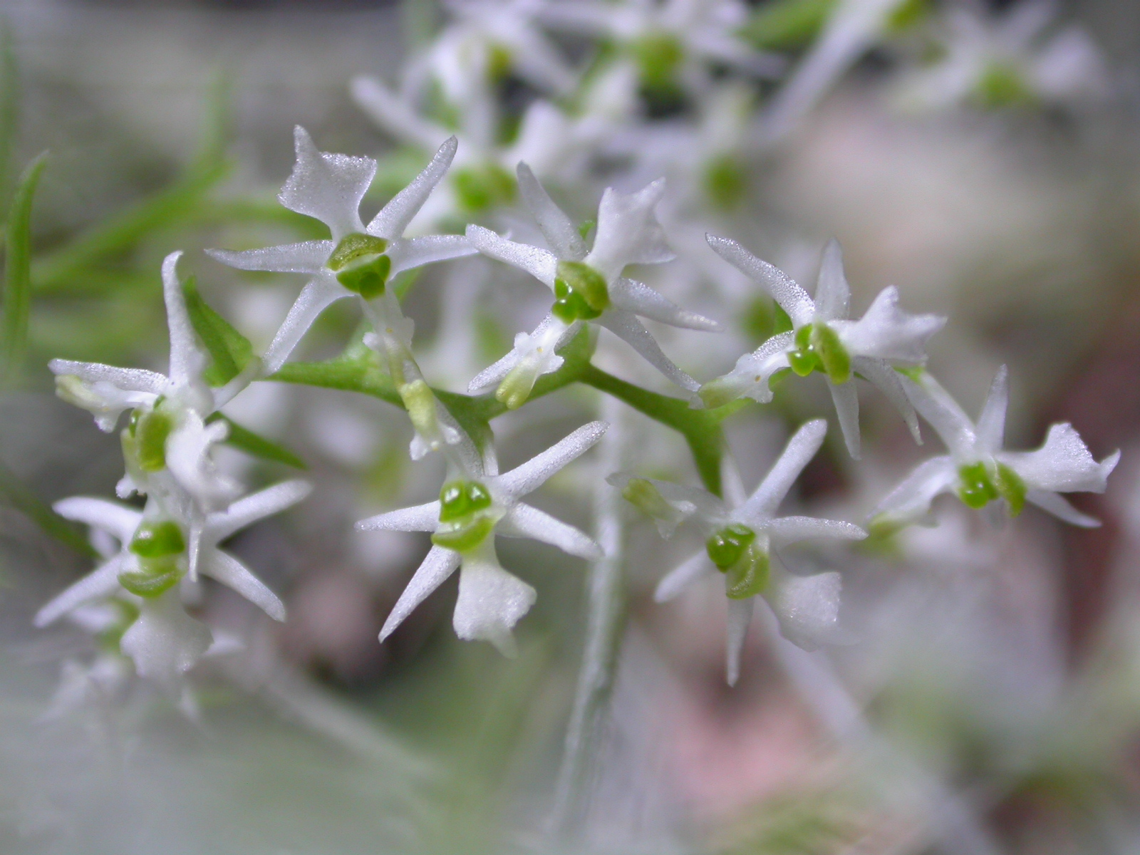 Phymatidium hysteranthum